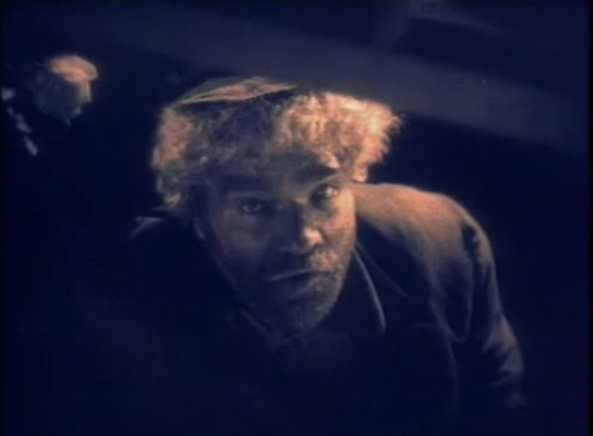 Scenography for the movie Greed. 1924.